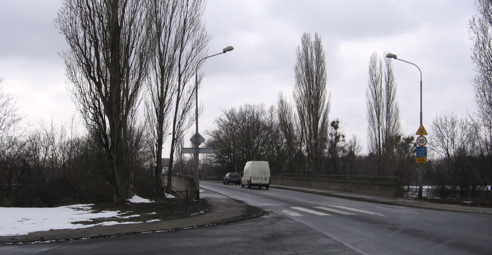 Wrocław, Poland Chrobrego Bridge (or Swojczycki Bridge), north-eastern part, view from east